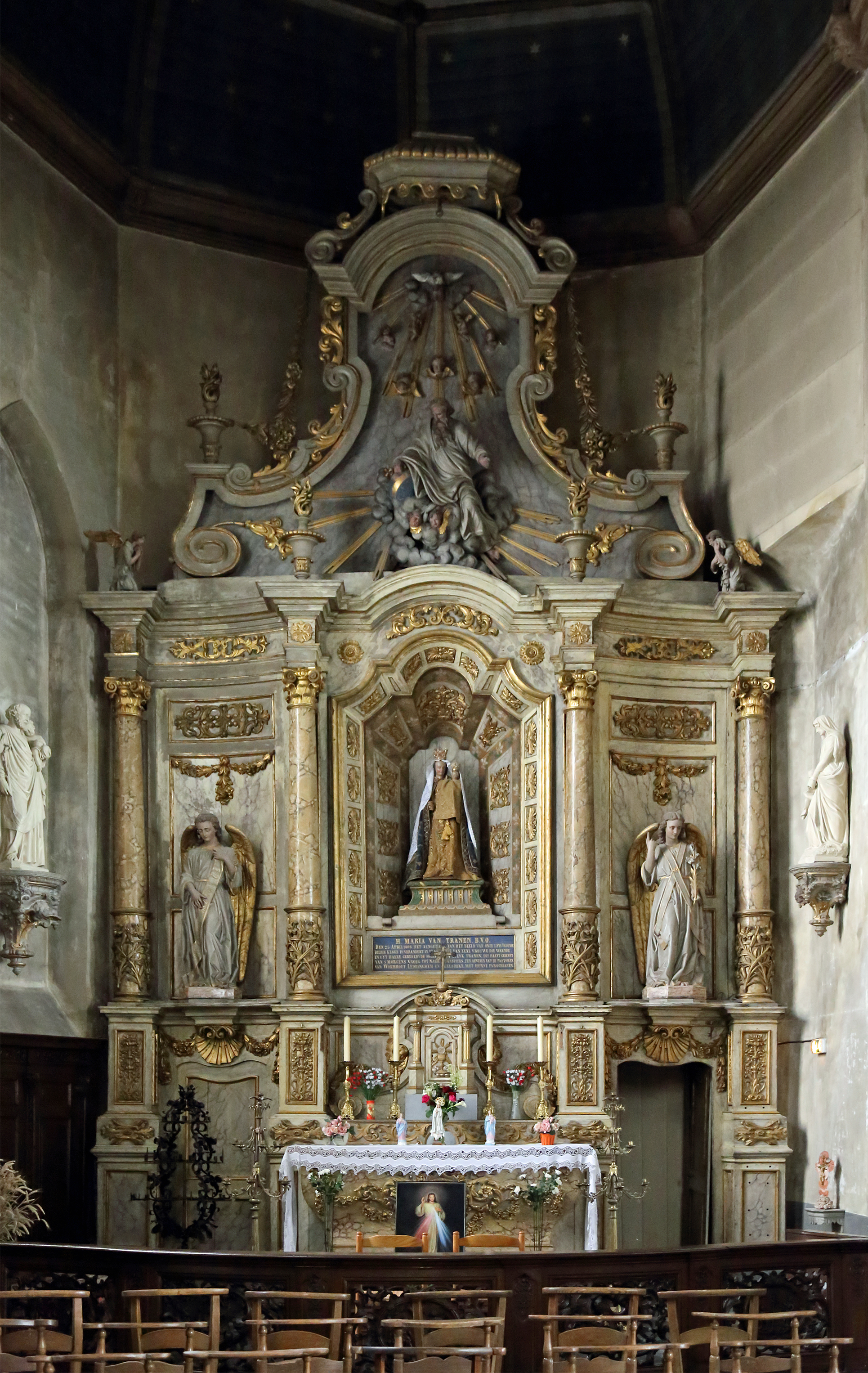 Wormhout (Nord department, France): interior of St Martin's church